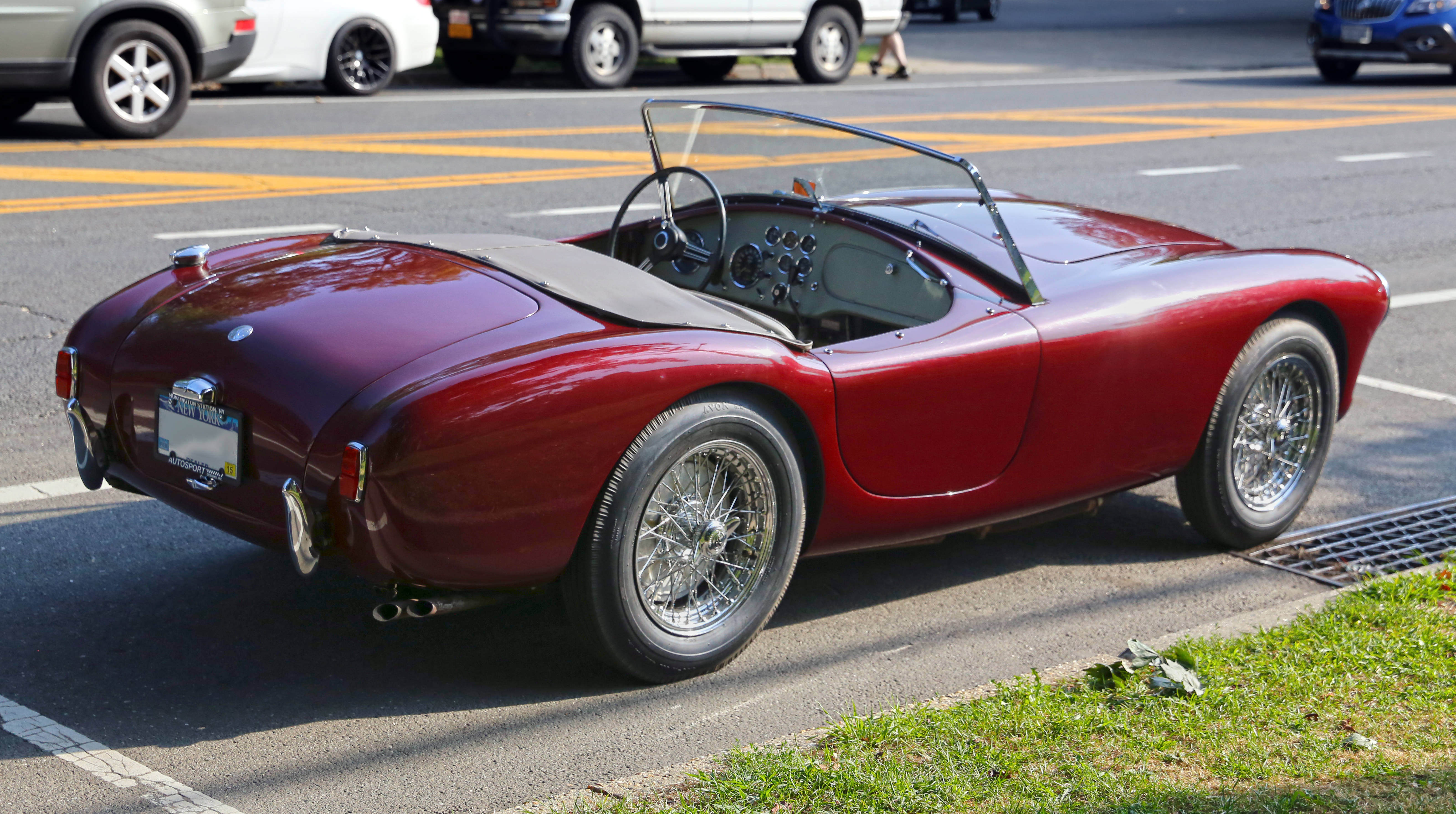 A 1958 AC Ace roadster seen in Amagansett, NY. Rouge Iris metallic bodywork with gray leather interior and carpeting, a four-speed manual and 28,000 miles. Presented in 1953 this Ace was finished on June 21, 1958 in this very configuration. It is powered by a 1991cc OHV straight-six with triple SU carburettors, and 105hp at 4500rpm. Good shape, recently ran the Colorado Grand without problem, never restored (just repainted) and had one owner for nearly 30 years. It is an AC-engined car with the original engine and factory LHD, sold new to New Hampshire by the then East Coast AC importer, Hap Dressel's AC Imports Inc. in Arlington, VA. Only 220 AC-engined Aces were produced as opposed to 463 Bristol-engined cars. Parked in Amagansett in an attempt to lure a deep-pocketed buyer; sadly all they got was me and my camera as the car is still listed for sale.